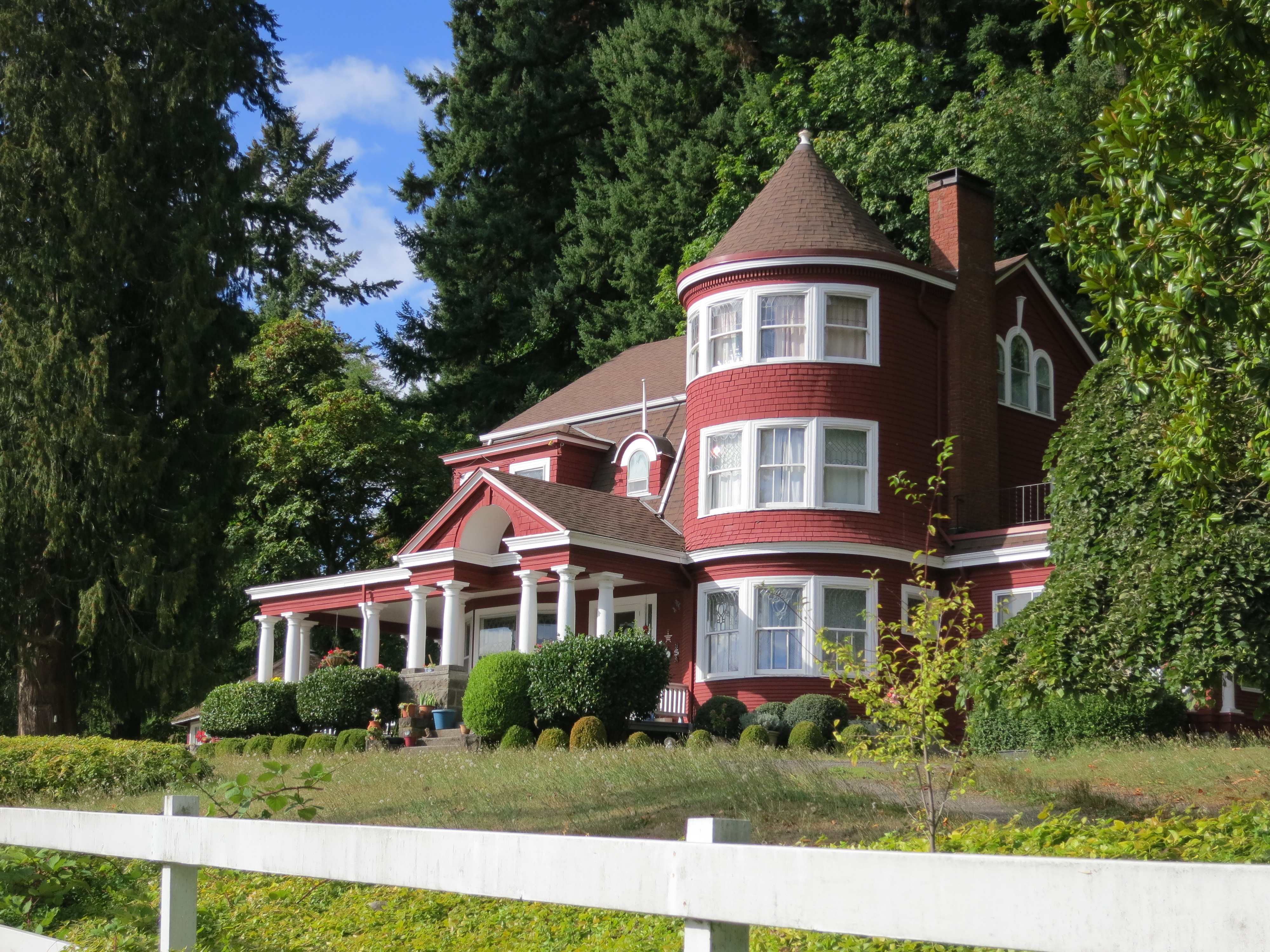 Pittock House, North of Camas at 114 NE Leadbetter Rd. Camas